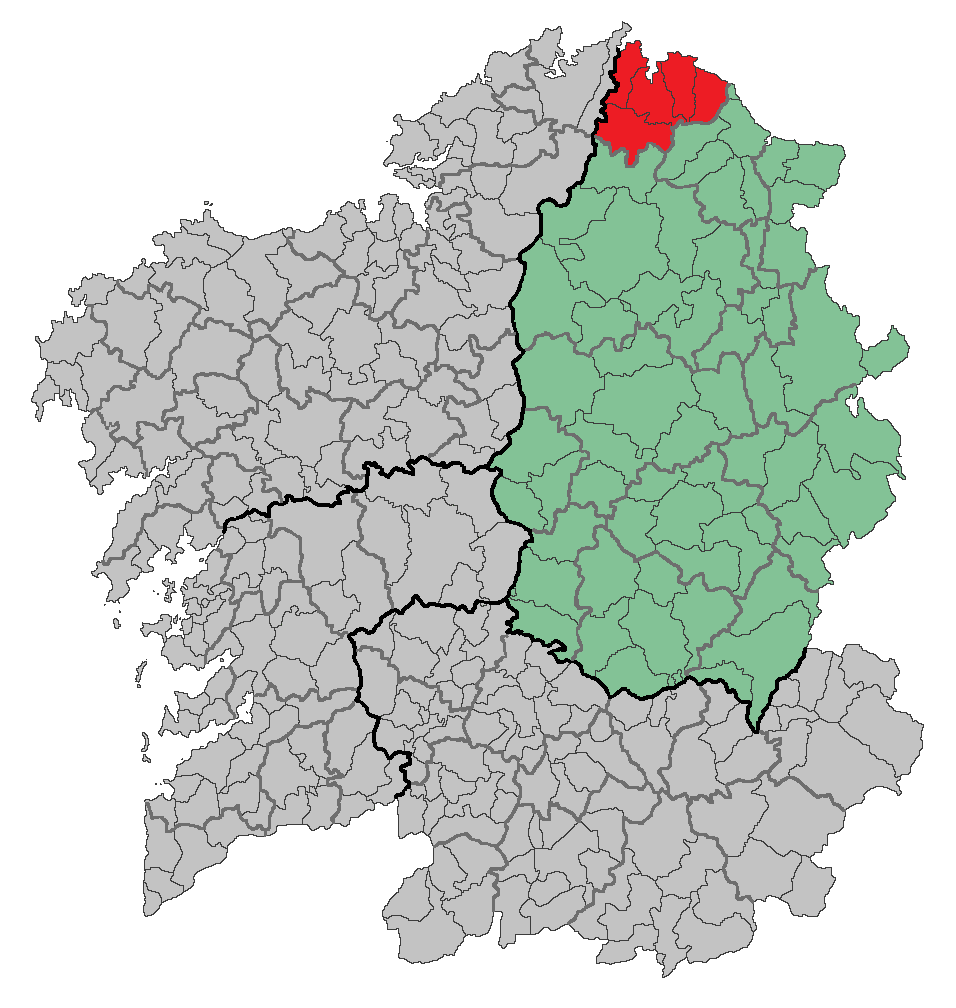 Region of Galicia (Spain) Based in: Image:Location of Betanzos.png Source: Designed by Leoplus. Original picture, designed by Caiser over a work made by Alyssalover.